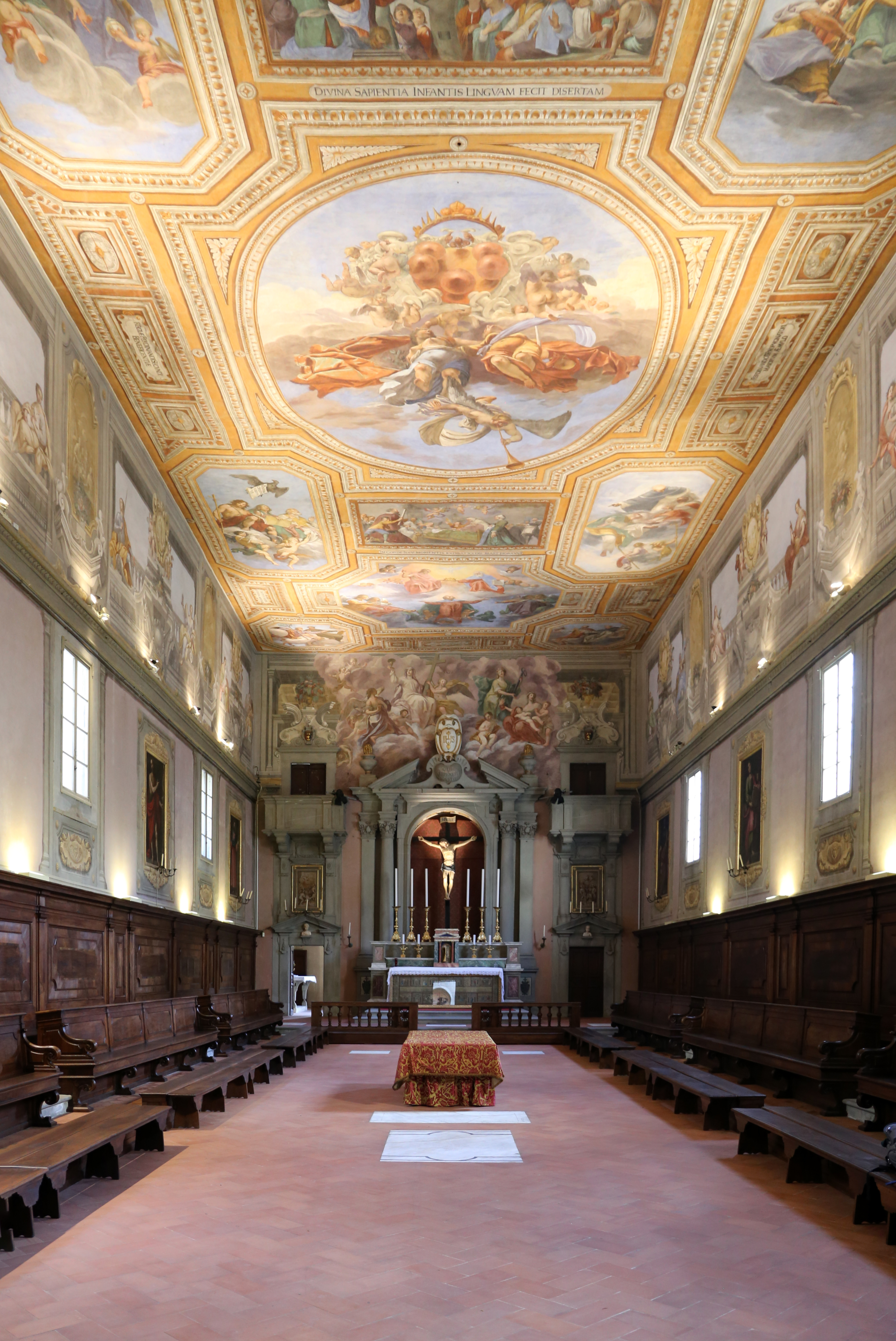 Vanchetoni (Florence) - Oratory interior